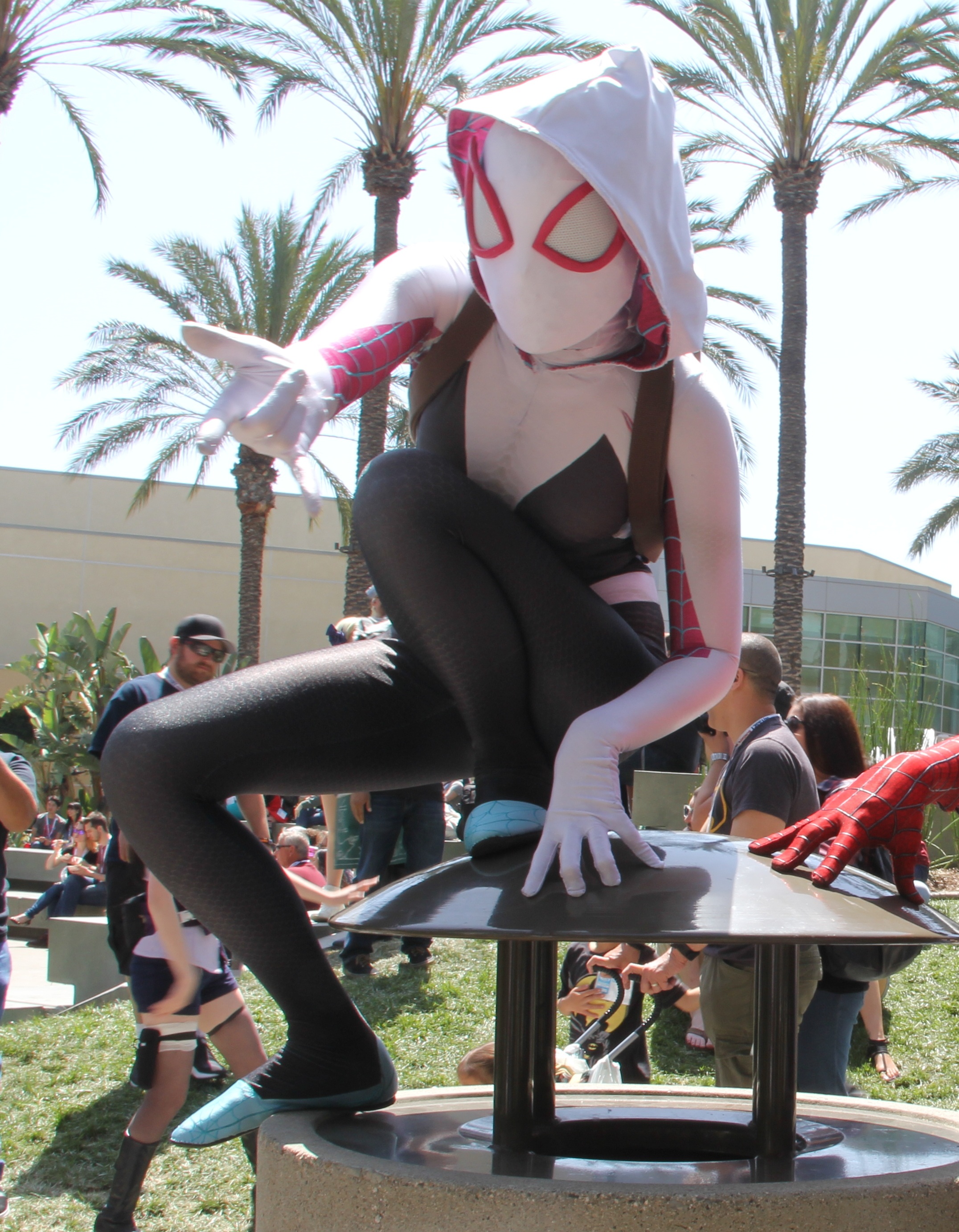 Last Spider-Gwen picture. I swear.